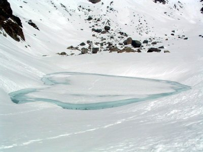 Coca lake, Lombardy Italy